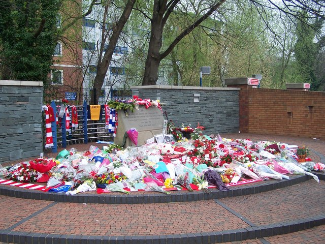 Hillsborough Disaster Memorial - 1, Hillsborough, Sheffield 20 years on ... and every year there are more and more flowers and tributes for the 96 people who tragically lost their lives. This year (2009) the people of Sheffield and Nottingham (and others) seem to have been more visible in their tributes. I pass this site, outside Sheffield Wednesday's Hillsborough Stadium, nearly everyday ... and am pleased to say that I have never seen any graffiti or vandalism ... well done to the people of Sheffield. 1254636 1254666 1254673 1182326 725321